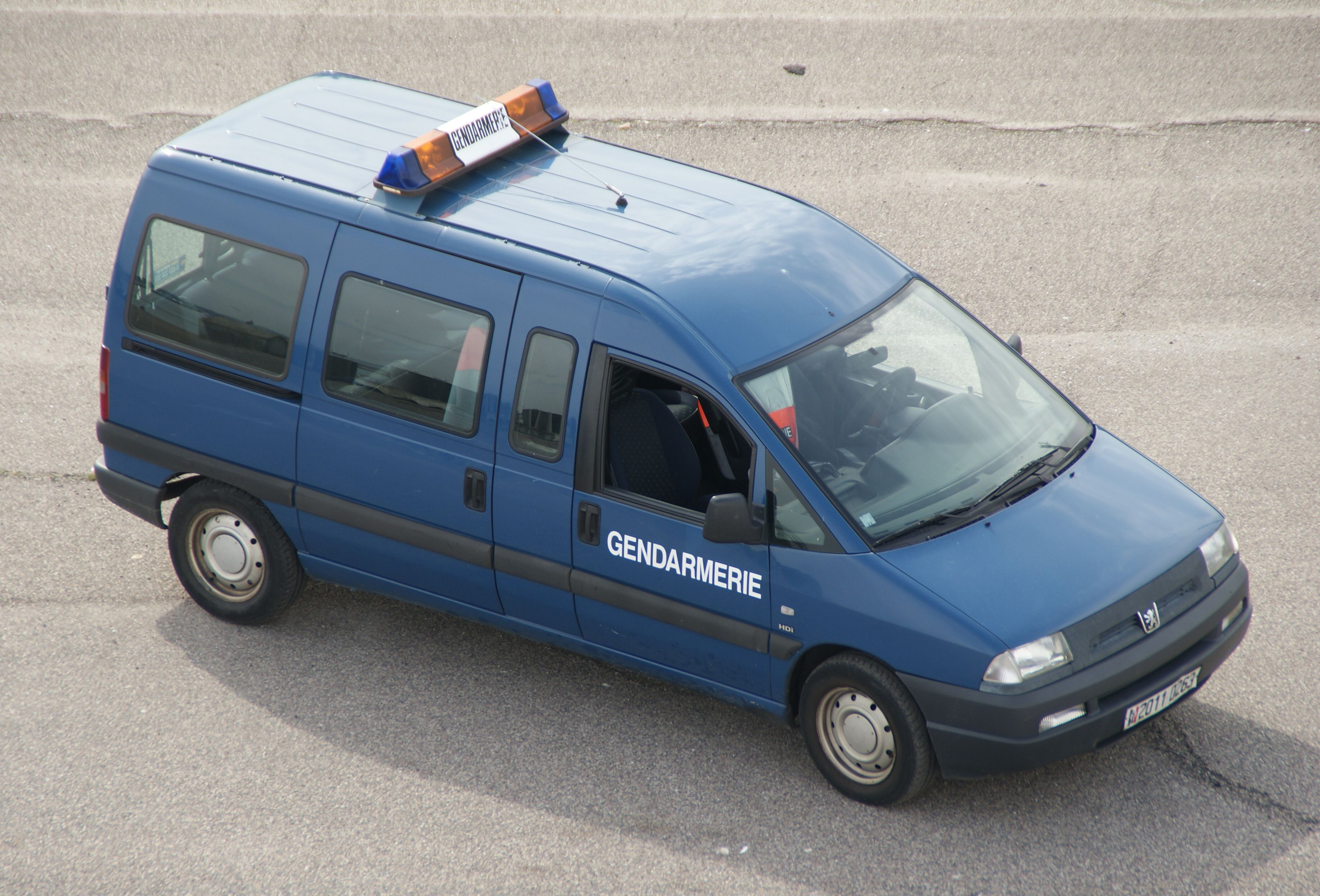 060808-076 CPS